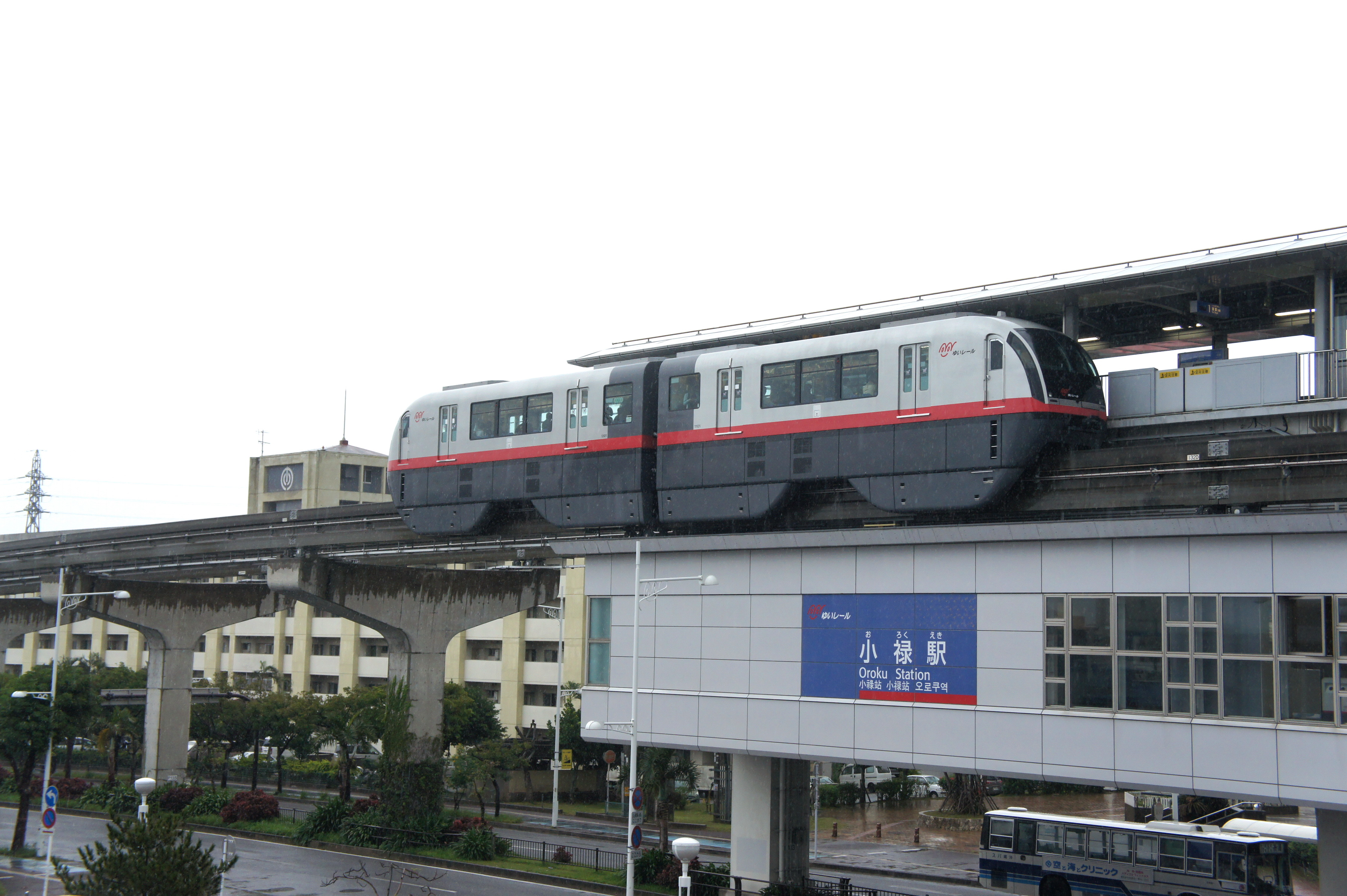 Okinawa City Monorail Line (Yui Rail) Oroku Station (Okinawa)